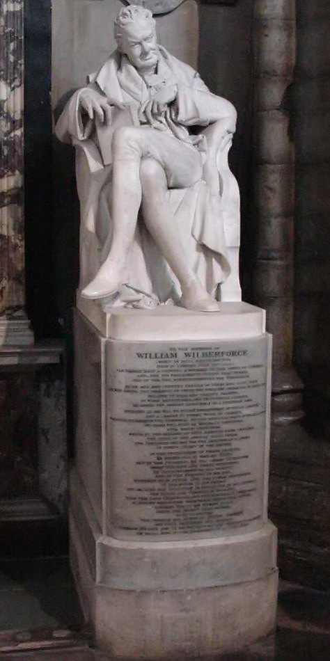 Memorial to William Wilberforce, pictured on 21 March 2001. Photo taken with Sony Mavica FD-88.